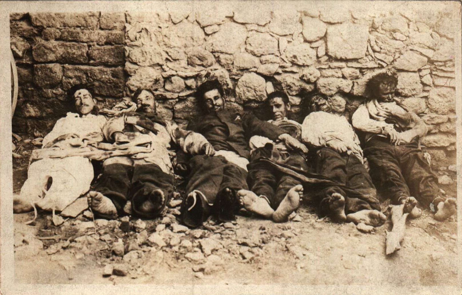 Killed members of Stotan Lekov's band, 19 April 1925